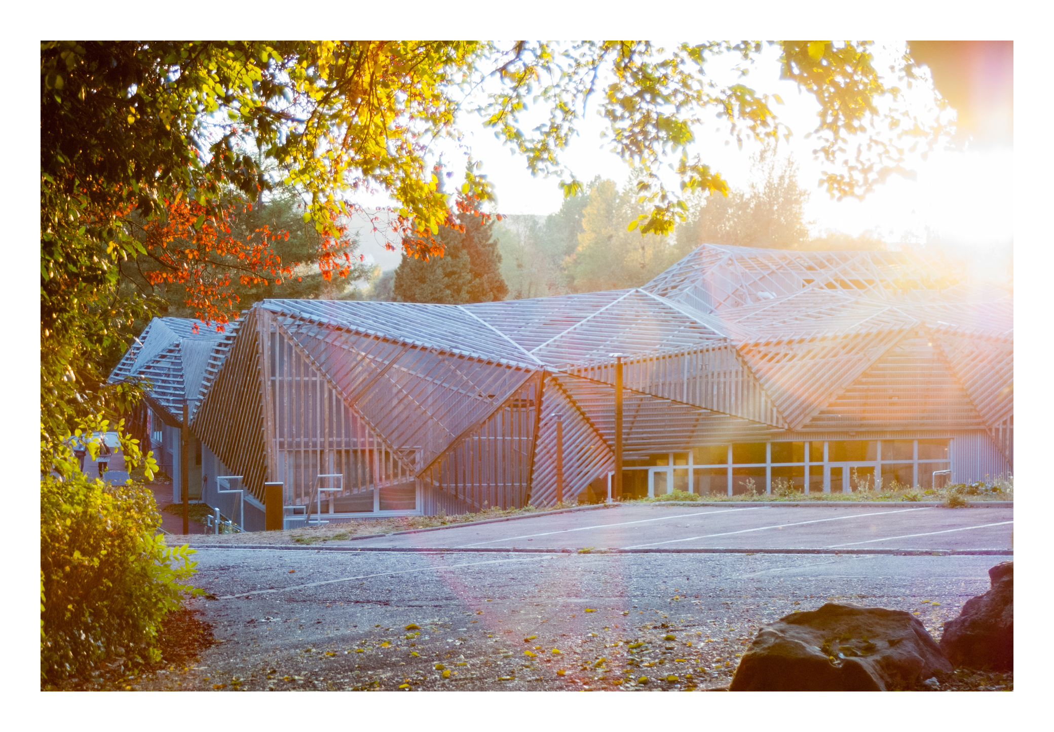 Photographie de la maison des association de l'université (anciennement Paris-Sud). Prise depuis le bâtiment 336 (plongée).